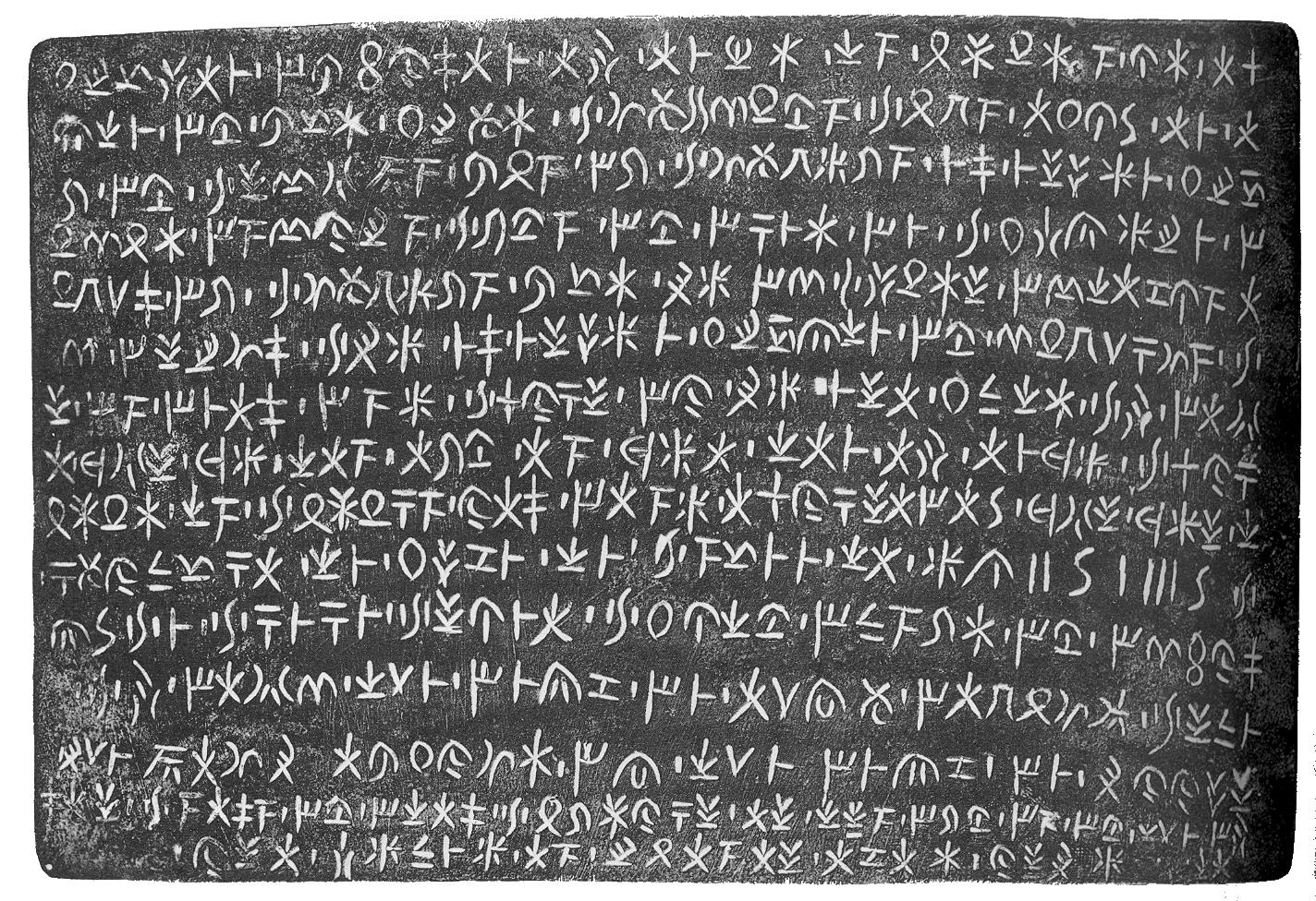 Bronze tablet inscribed with signs of the Cypriot syllabary